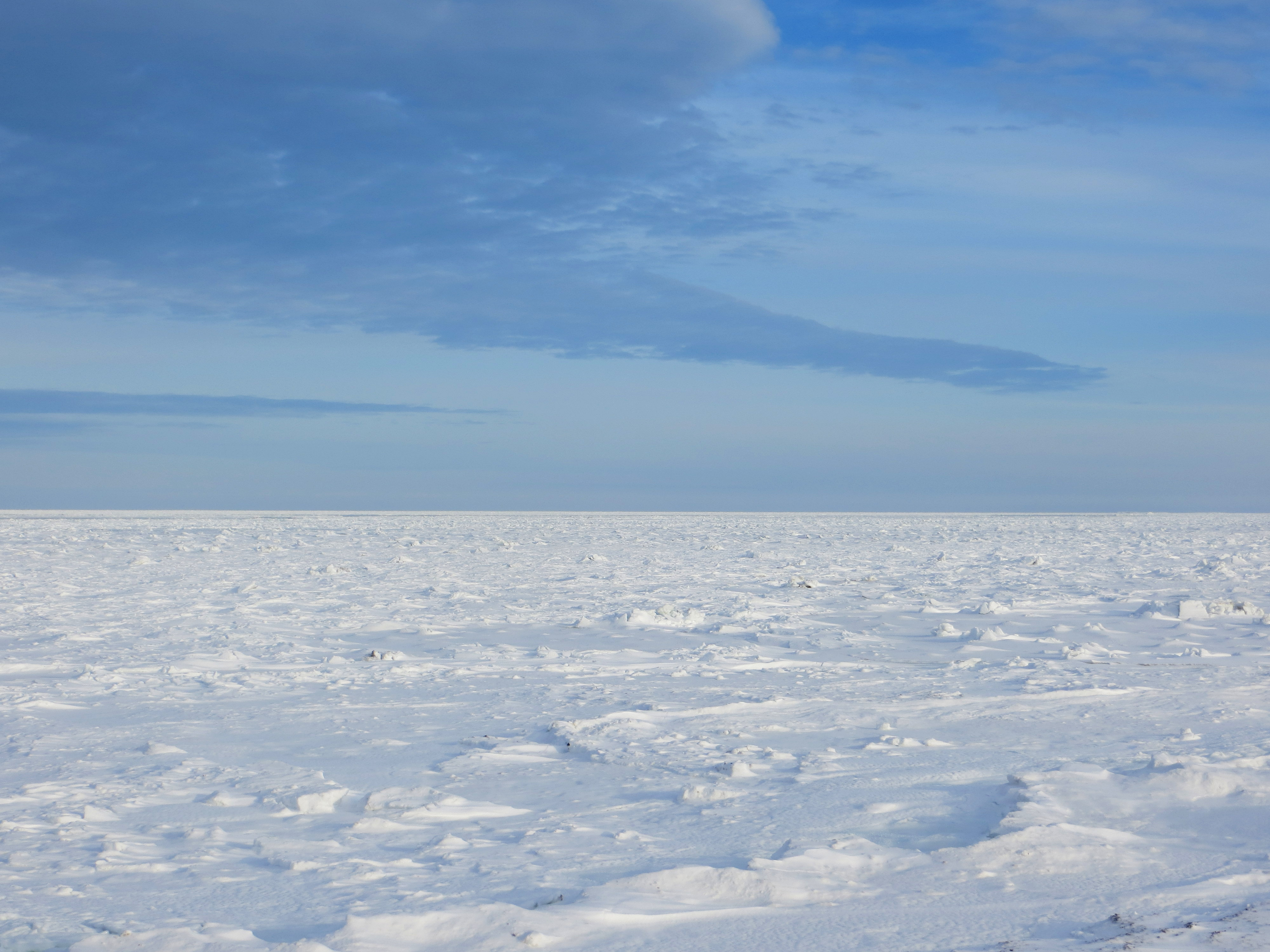 Shore-fast ice on Hudson Bay in Churchill Wildlife Management Area